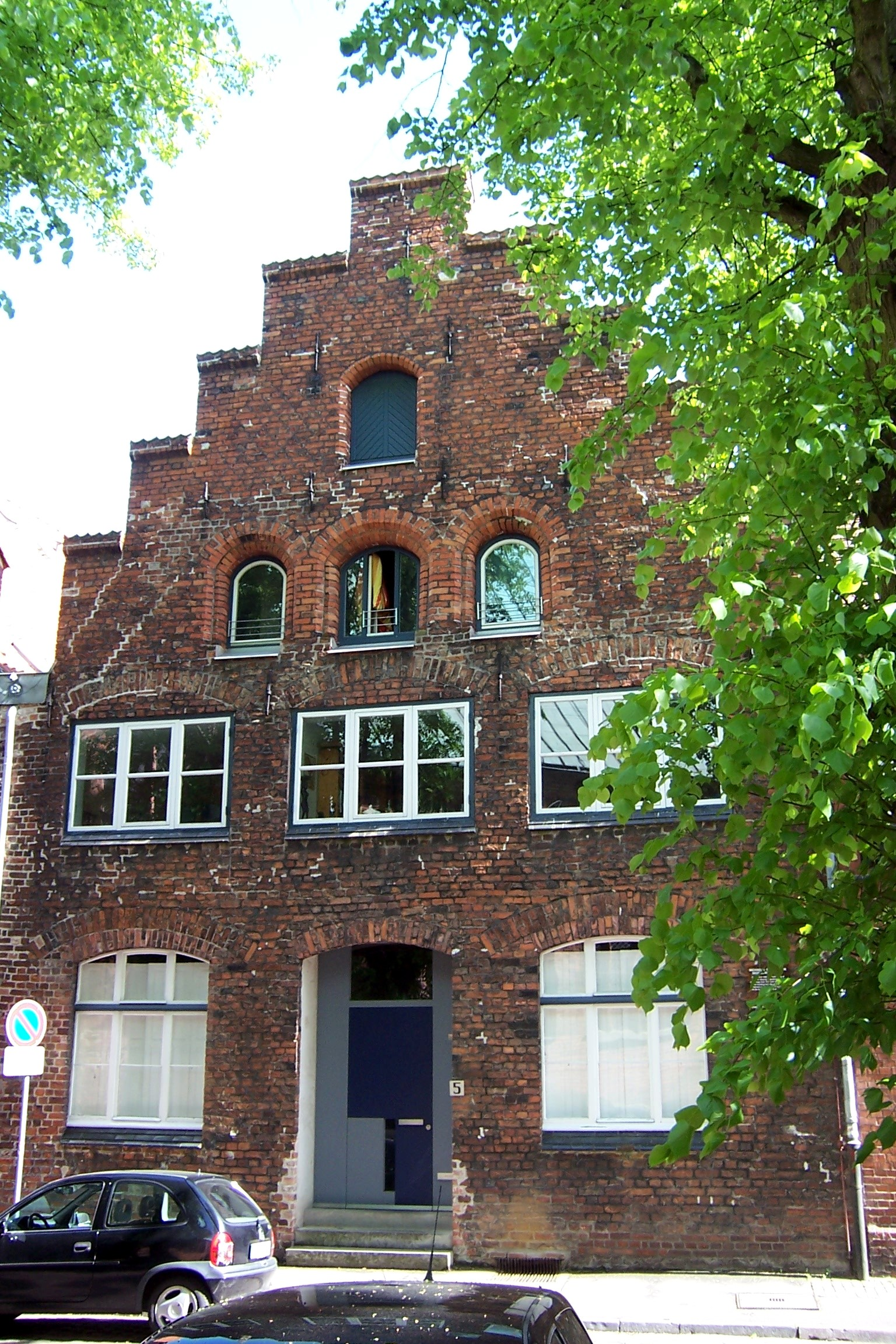 View of St. Annen-Straße 5: Michaeliskonvent in Lübeck